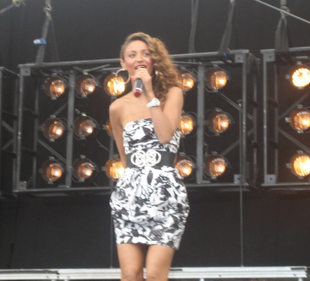 Amelle on stage at Vodafone TBA in Edinburgh on June 1st, 2008.